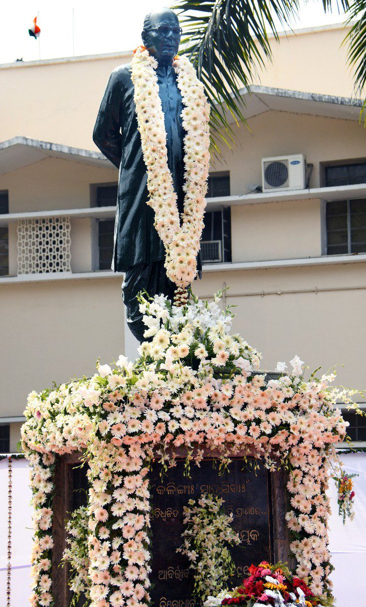 Biju Pattnaik statue with garlands, The government of Odisha has released all of its social media posts under a free Creative Commons license, allowing people from around the world to freely re-use the government’s content in projects like Wikipedia. Visit here for details